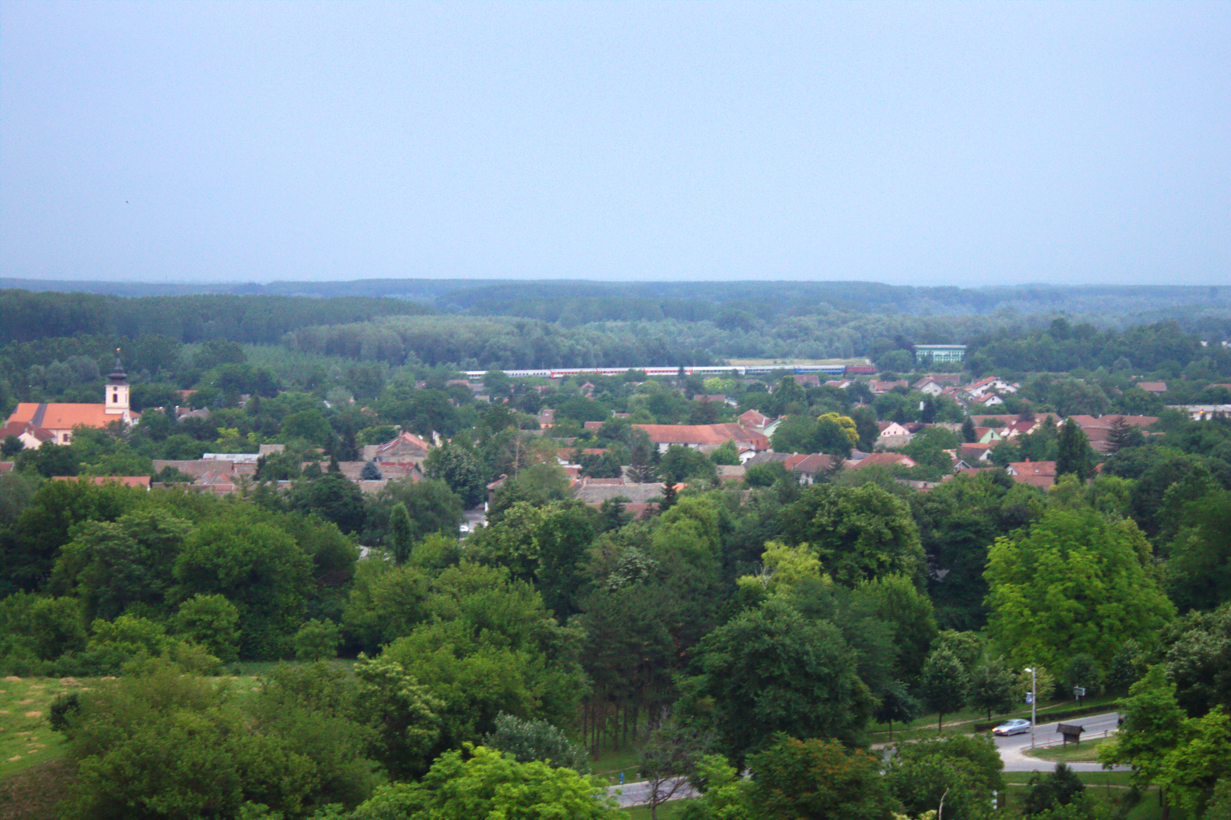 A view from Petrovaradin fortress towards Petrovaradin. EC Avala can be seen in the distance, Novi Sad, Serbia